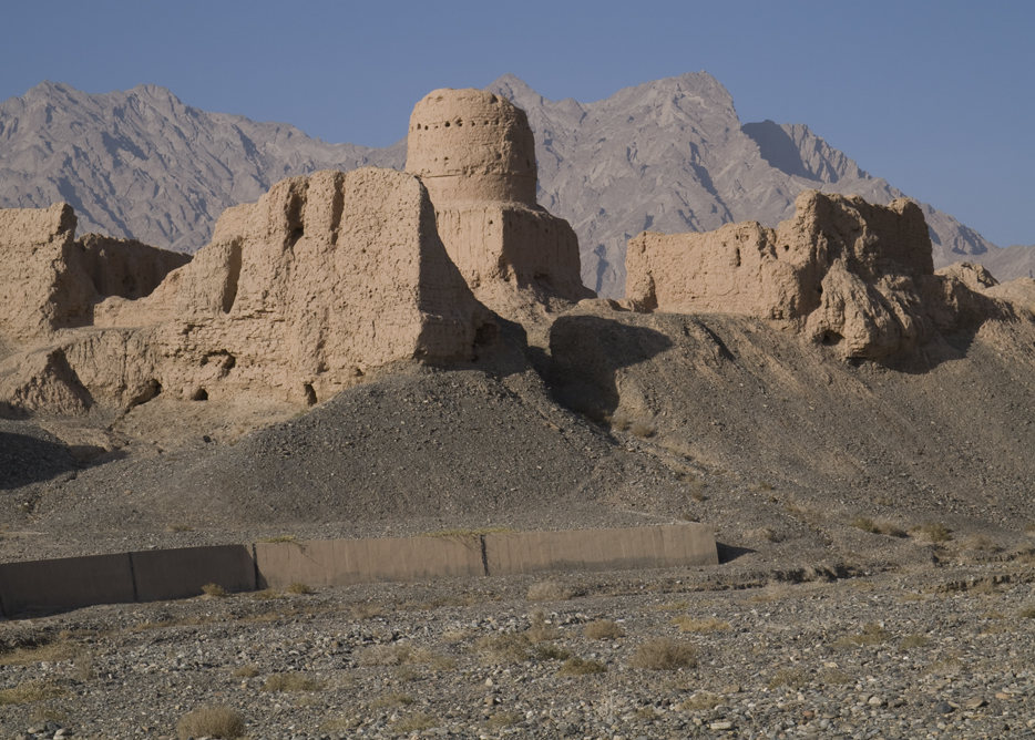 Subashi site east of the river.